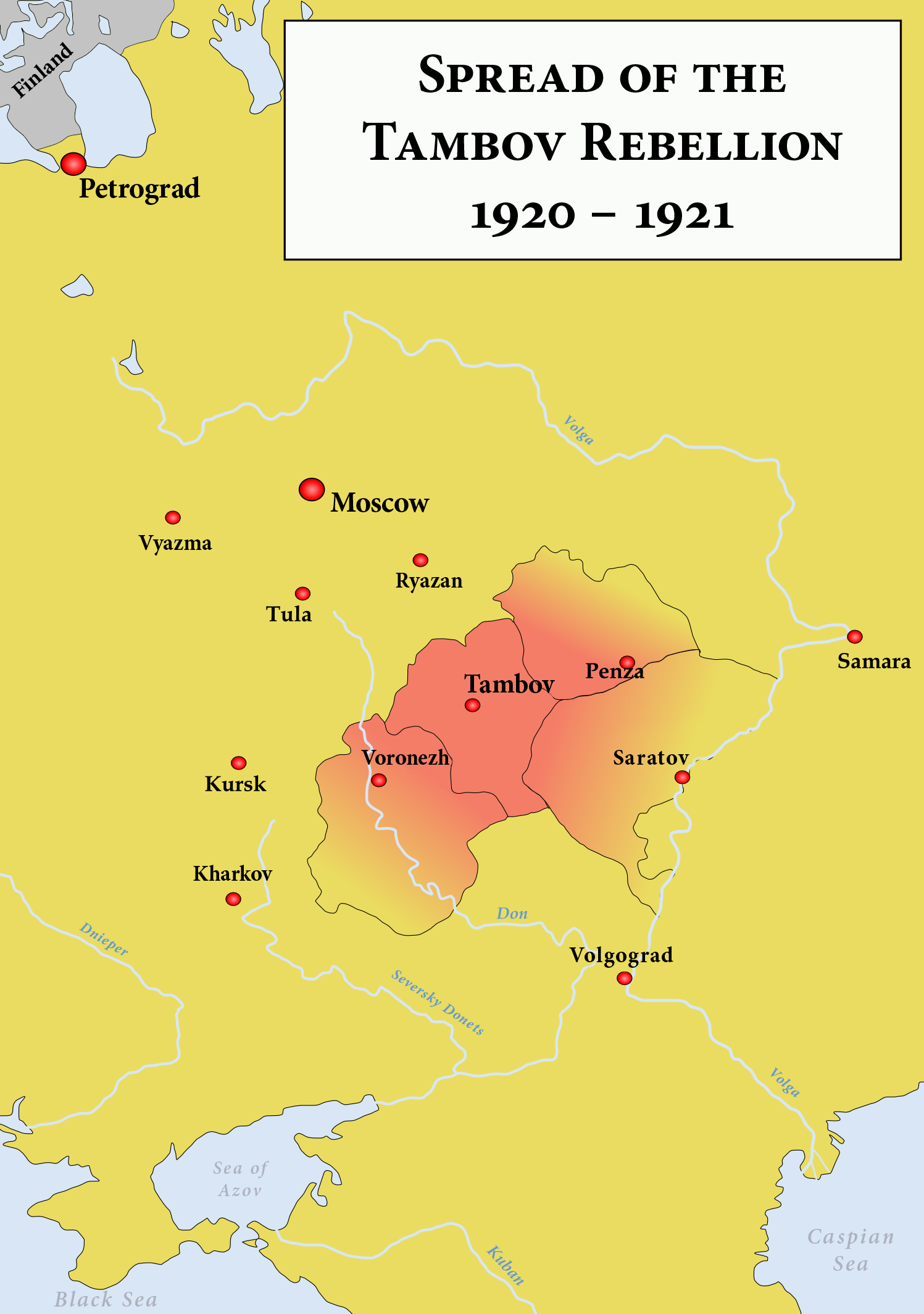 Map showing the main area of the Tambov Uprising in Russia 1920-1922